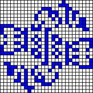 A spacefiller at generation 0.